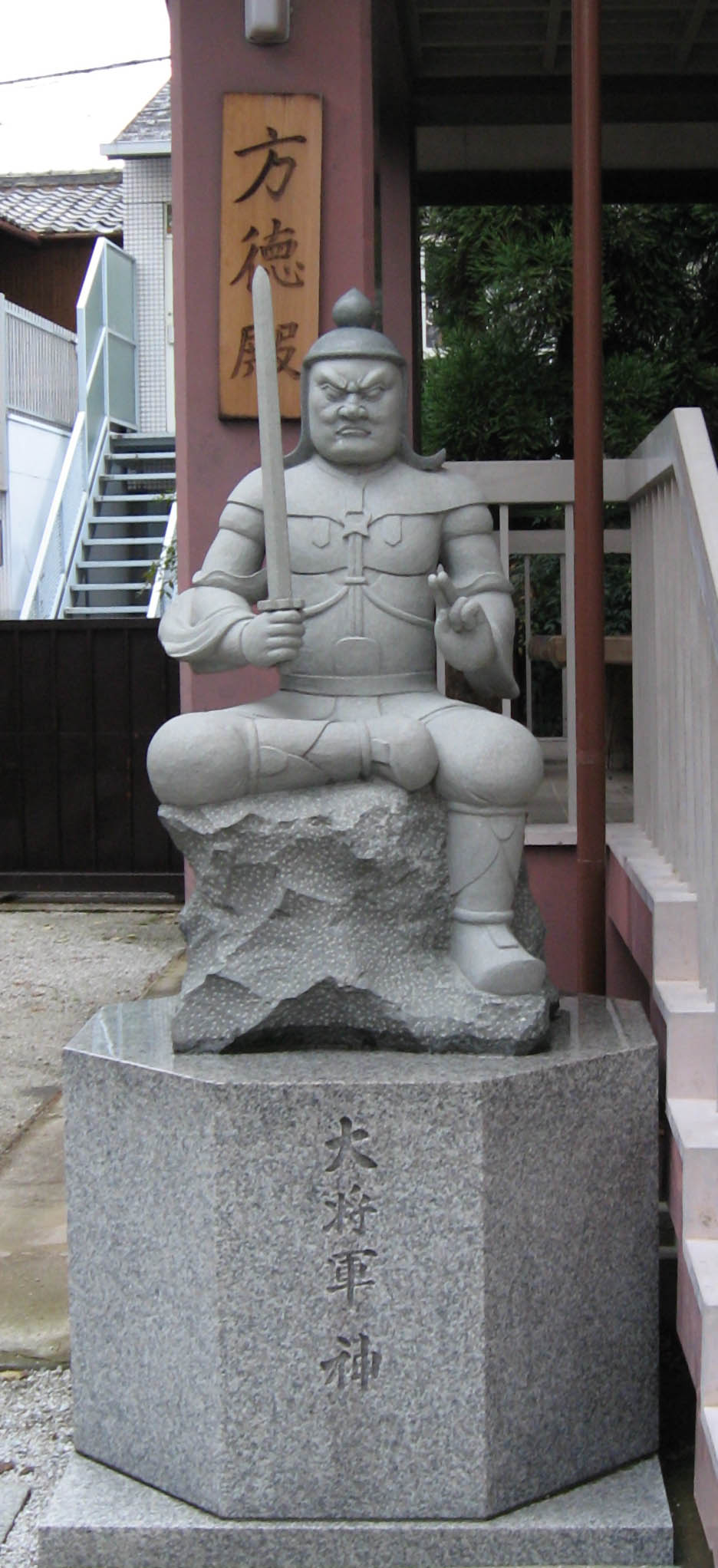 Statue of Daishogun ,god manages the good or ill luck of a direction. 大将軍座像（大将軍八神社。京都市）